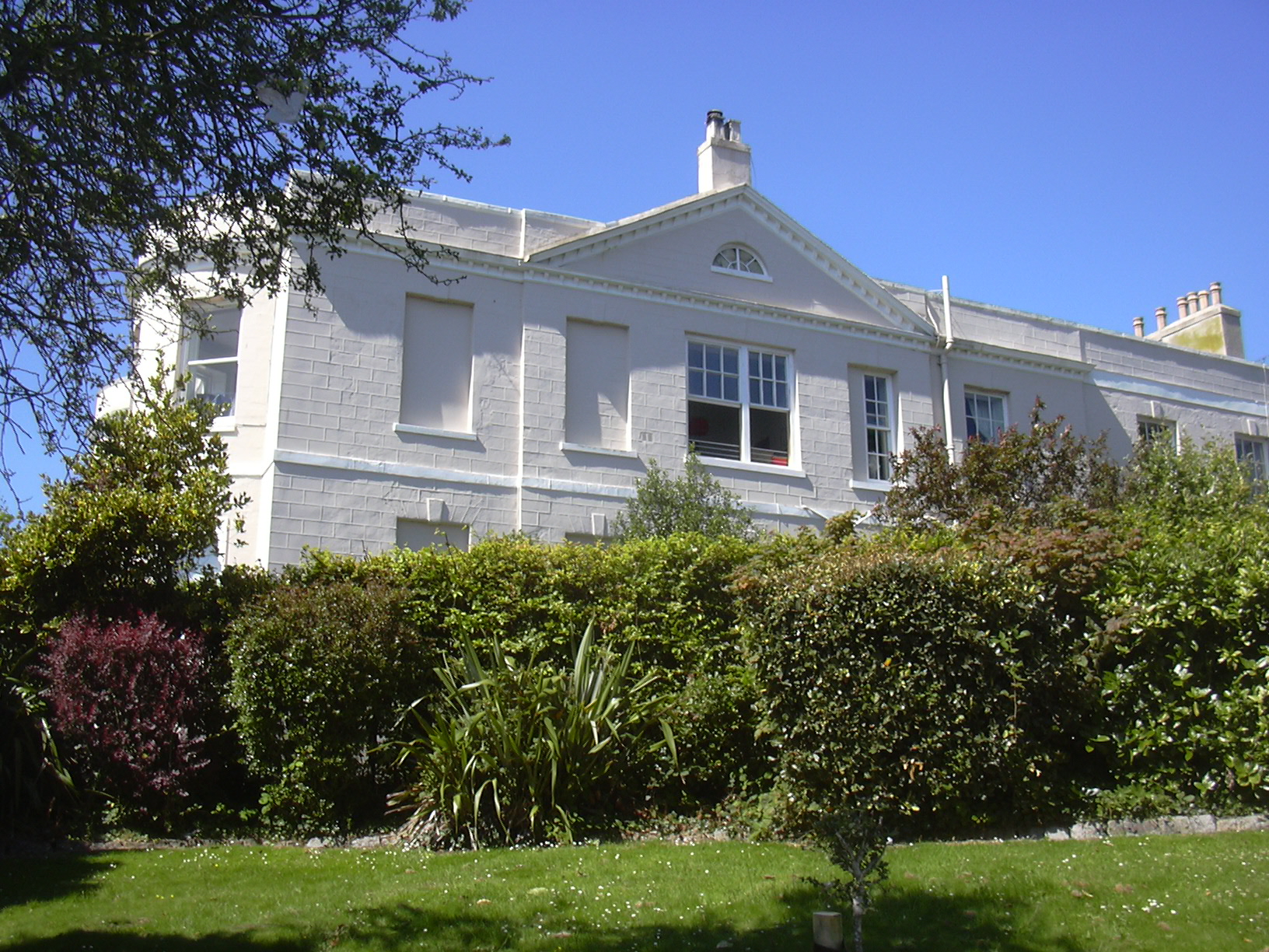 House in Falmouth, at the junction of Woodlane Crescent and Grove Hill Crescent, formerly the home of Lucy and George Croker Fox.